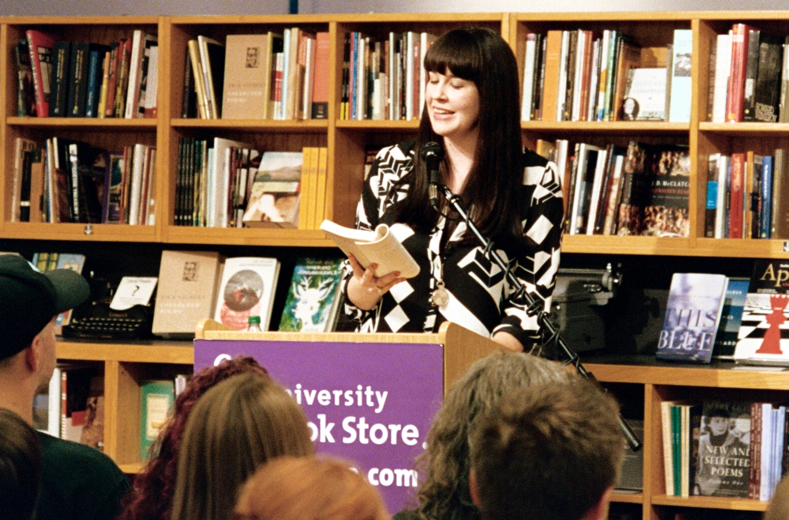 Caitlin Doughty reading Smoke Gets in Your Eyes at the University Book Store, 4326 University Way NE, Seattle, WA on September 18, 2014.